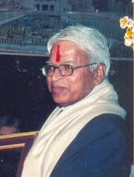 Solipuram Madhusudhan Reddy